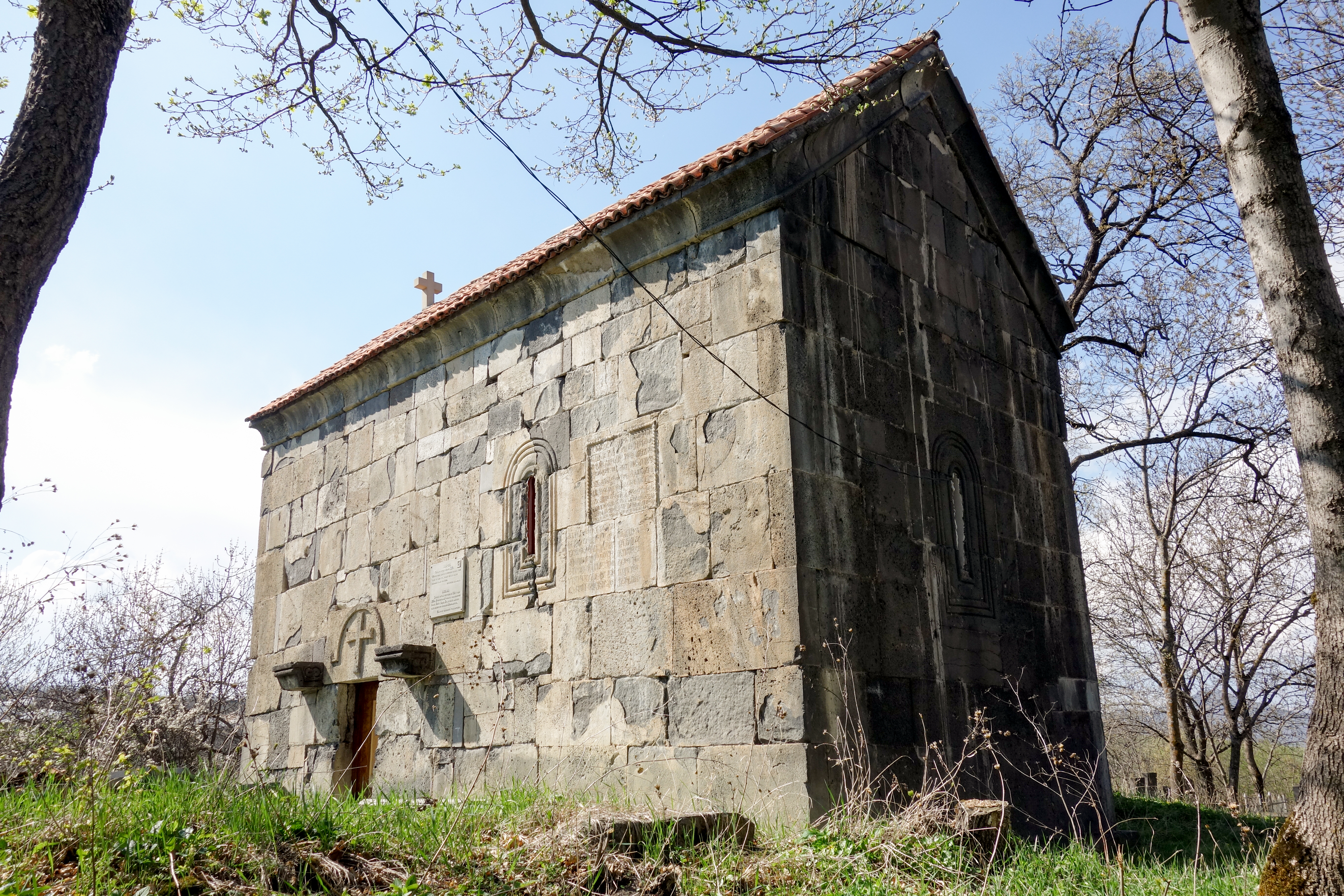 Abelia Church (XIII c.), Abeliani, Kvemo Kartli, Georgia